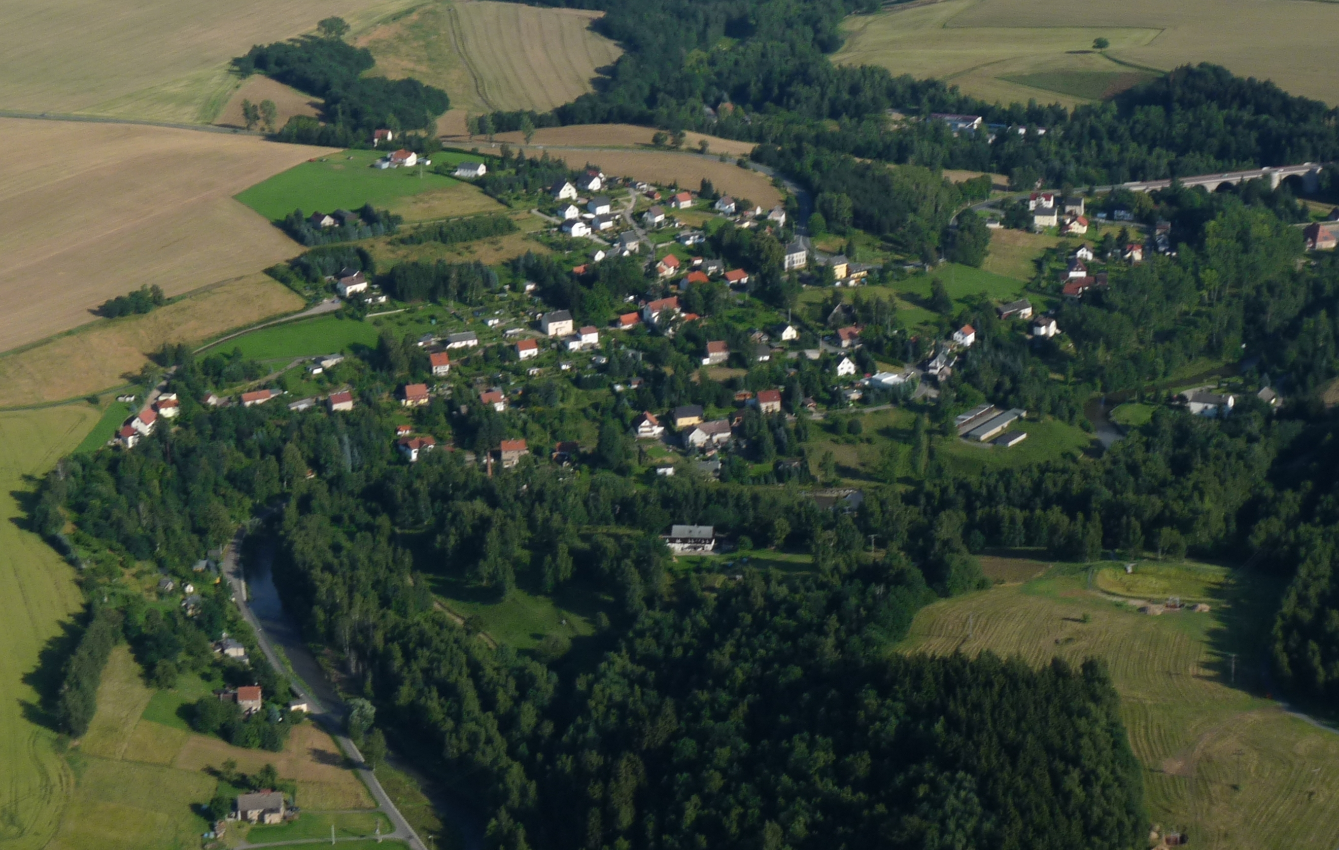 Halsbach village urban district of Freiberg in Saxony